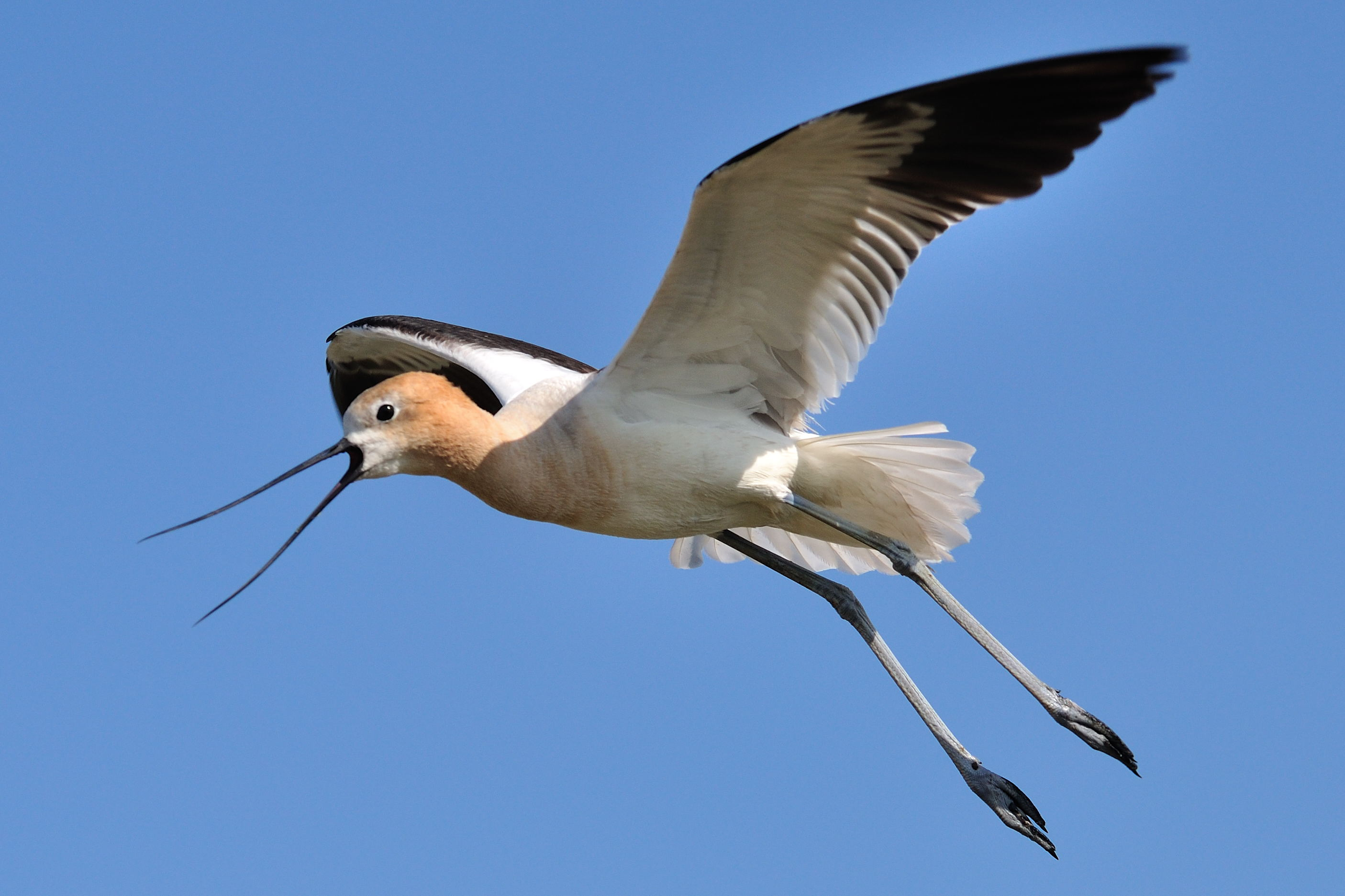 American Avocet (Recurvirostra americana)